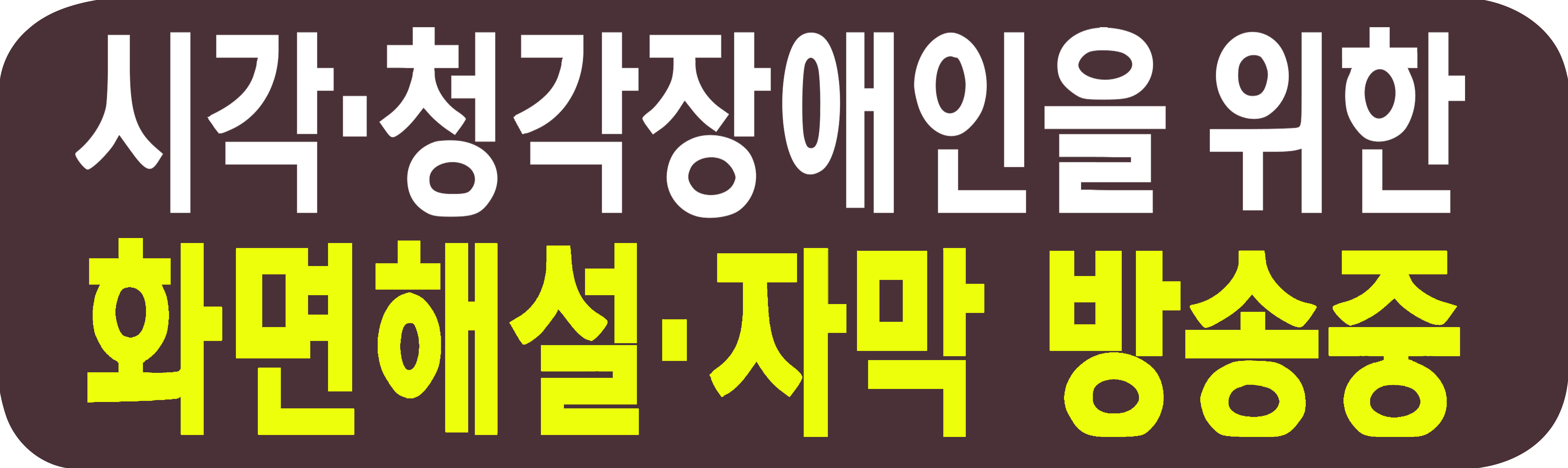 KBS Closed caption broadcast logo